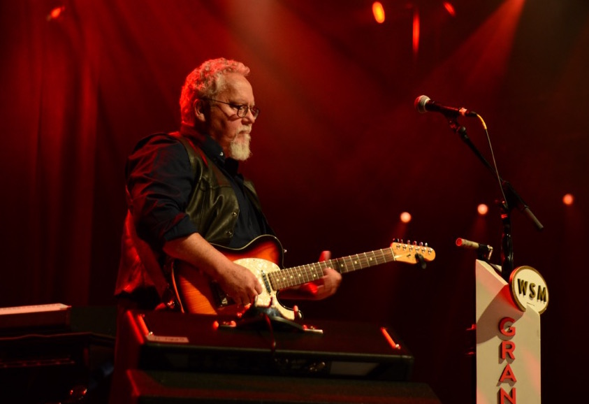 Max T. Barnes playing electric guitar at the Grand Ole Opry